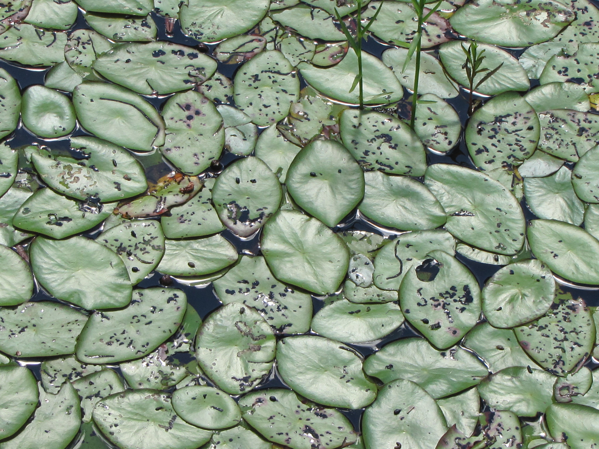 Brasenia schreberi in Schoolcraft County, MI, USA